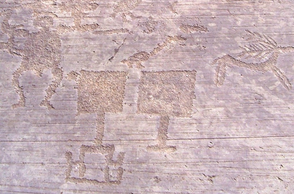 Shovel figures, deer and human, rock 1 in Naquane area. Capo di Ponte, Italy